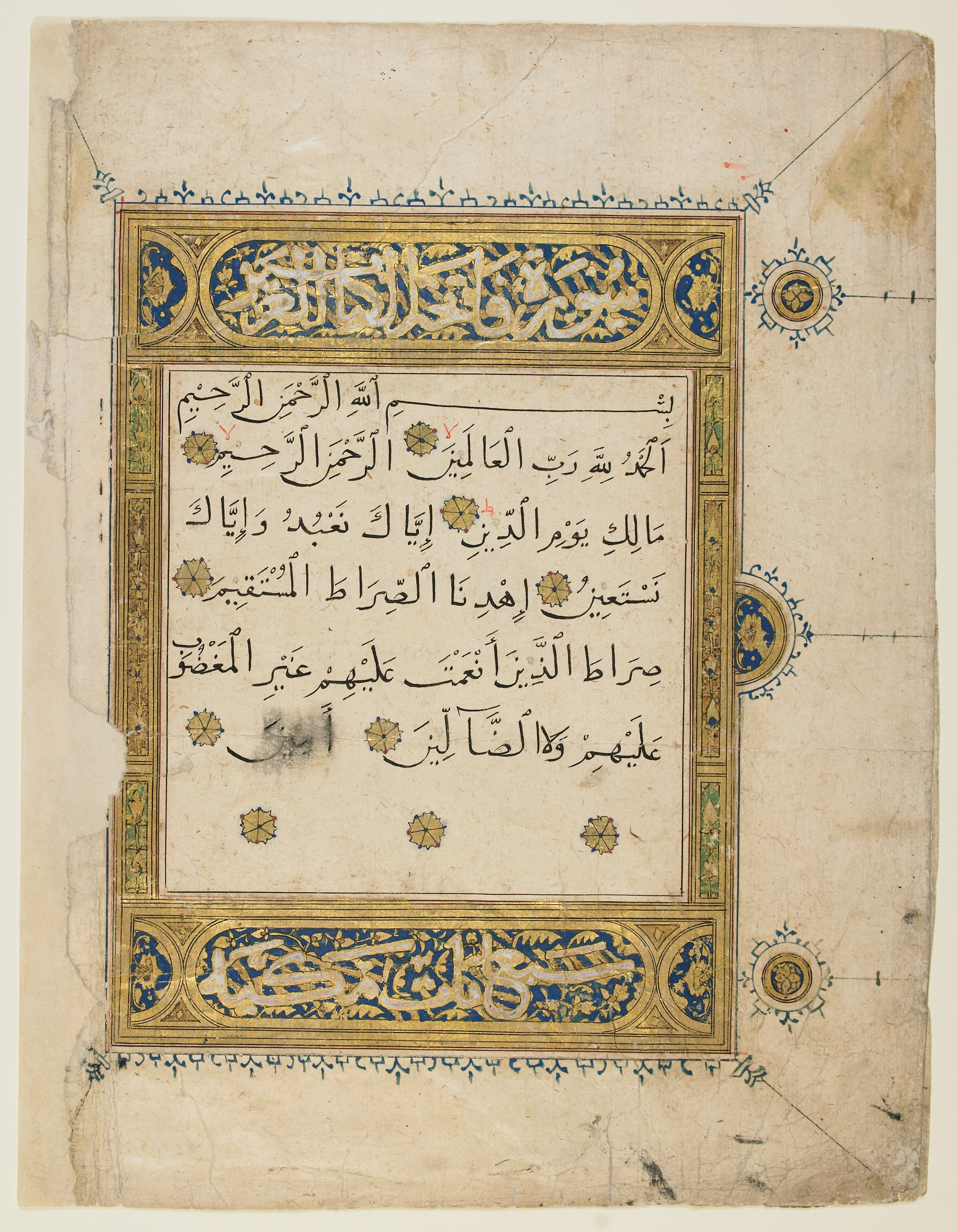 Dimensions of Written Surface: 15.4 (w) x 15.5 (h) cm Script: naskh This Qur'anic fragment contains the first chapter of the Qur'an entitled al-Fatihah (The Opening). Recited at the very beginning of the Qur'an, this surah proclaims God as Gracious and Merciful, the Master of the Day of Judgment, and the Leader of the straight path. The illuminated upper and lower panels contain a text, outlined in gold ink to let the plain folio show through, stating that this surah is the opening of the Holy Book (Fatihat al-Kitab al-'Aziz) and contains seven ayahs revealed in Mecca. These illuminated cartouches contain gold vine and flower motifs interlacing on a blue background. In the right margin appear two gold and blue decorative roundels and one semi-roundel in the center. The text itself is written in the cursive script called naskh, and each verse is separated by an ayah marker consisting of a gold six-petalled rosette with blue and red dots on its perimeter. Both the script and the illumination are typical of Qur'ans produced in Mamluk Egypt during the 14th and 15th centuries. Above the first two ayah markers on the first line of text immediately after the initiatory bismillah appears the word la ("no") in red ink, indicating that the reciter must not stop at the places indicated. Finally, this fragment is particular in several ways: there are four extra verse markers at the very end of the surah, a mistake that has been rectified partially by the addition of the exclamatory, terminal praise amin ("Amen") between the last correct verse marker and the first additional marker. The spaces between the last three verse markers on the lowermost line remain empty.